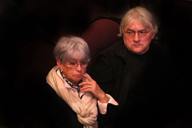 Hajnal Sellő a Hungarian film editor and Lajos Koltai, ASC, HSC, a Hungarian cinematographer and film director